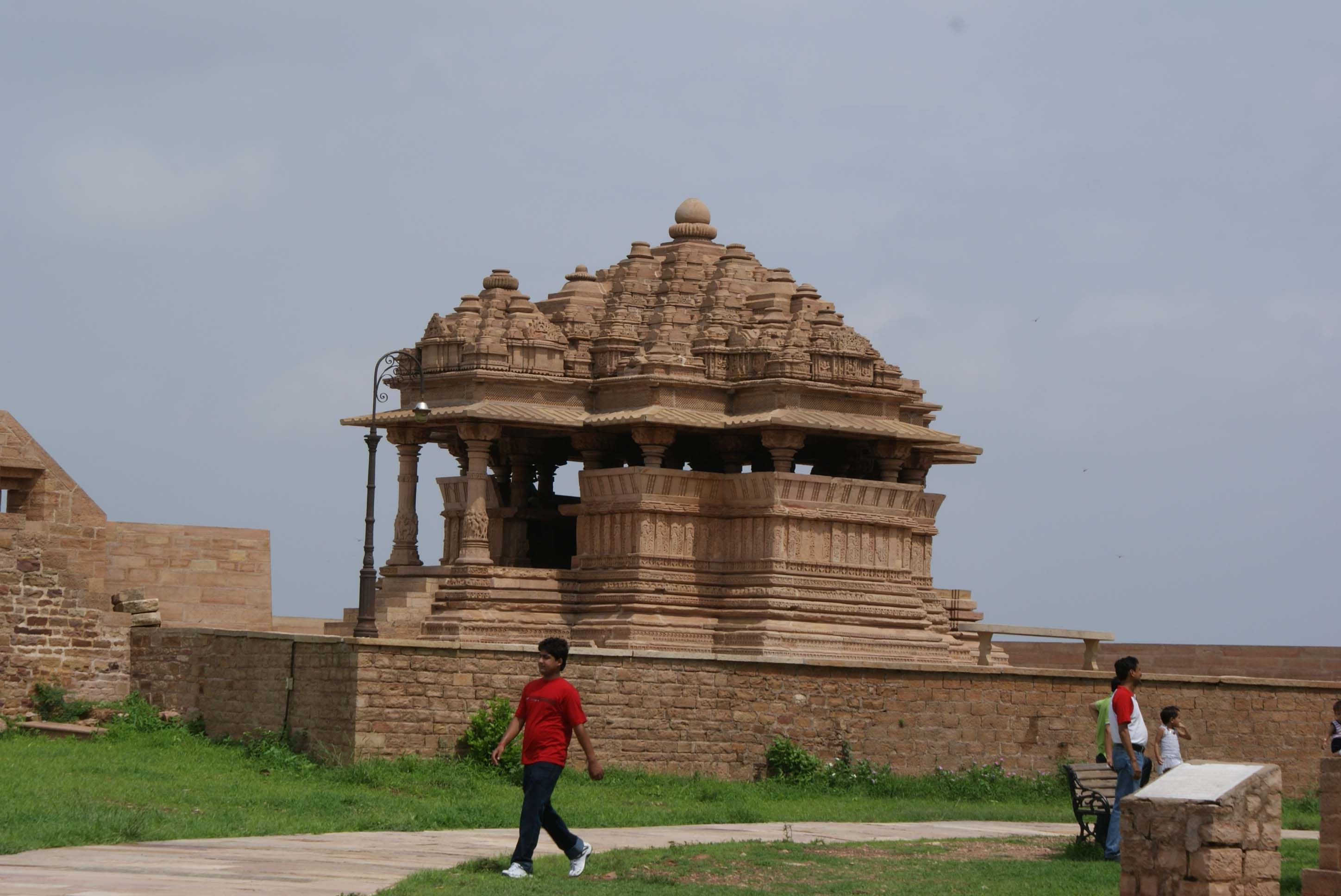 Gwalior Fort Temple